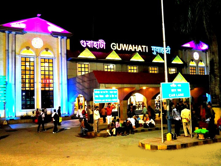 Guwahati